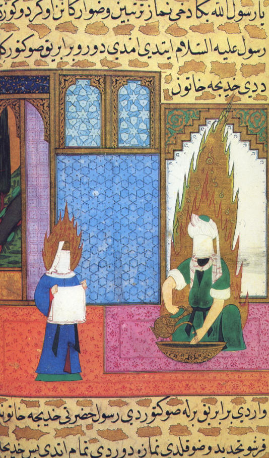 Siyer-I Nebi or Life of the Prophet